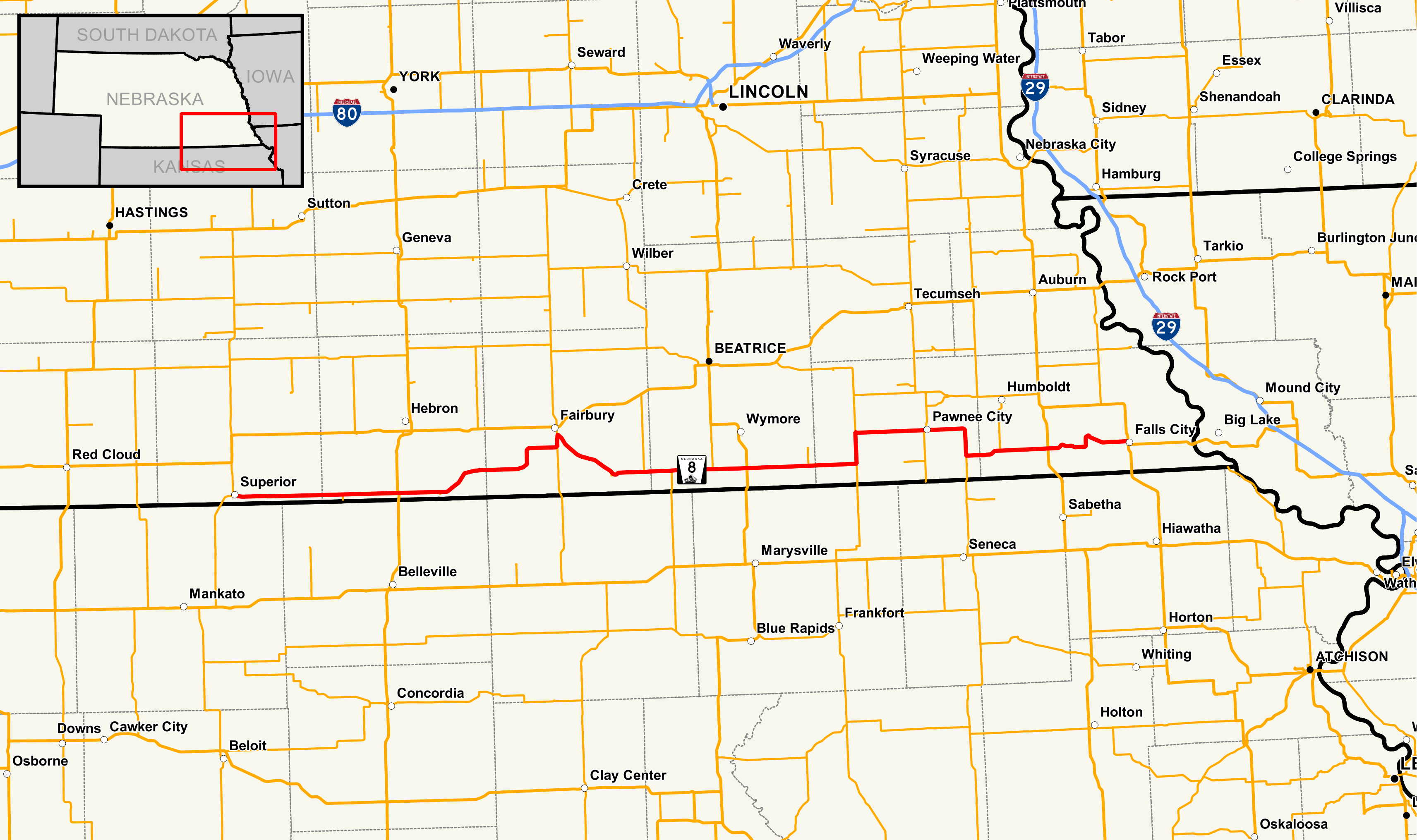 Map of Nebraska Highway 8 Data Sources: Nebraska Highways - - Dec 2016 Nebraska County Boundaries - - Dec 2016 Nebraska City Boundaries - - Dec 2016 This PNG graphic was created with QGIS